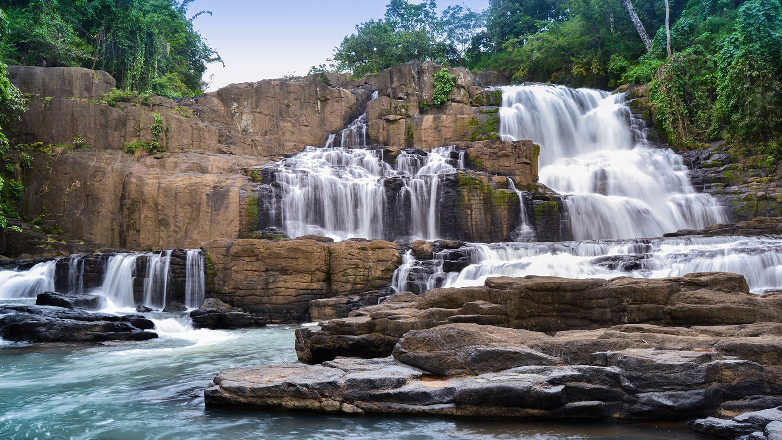 parangloe waterfall